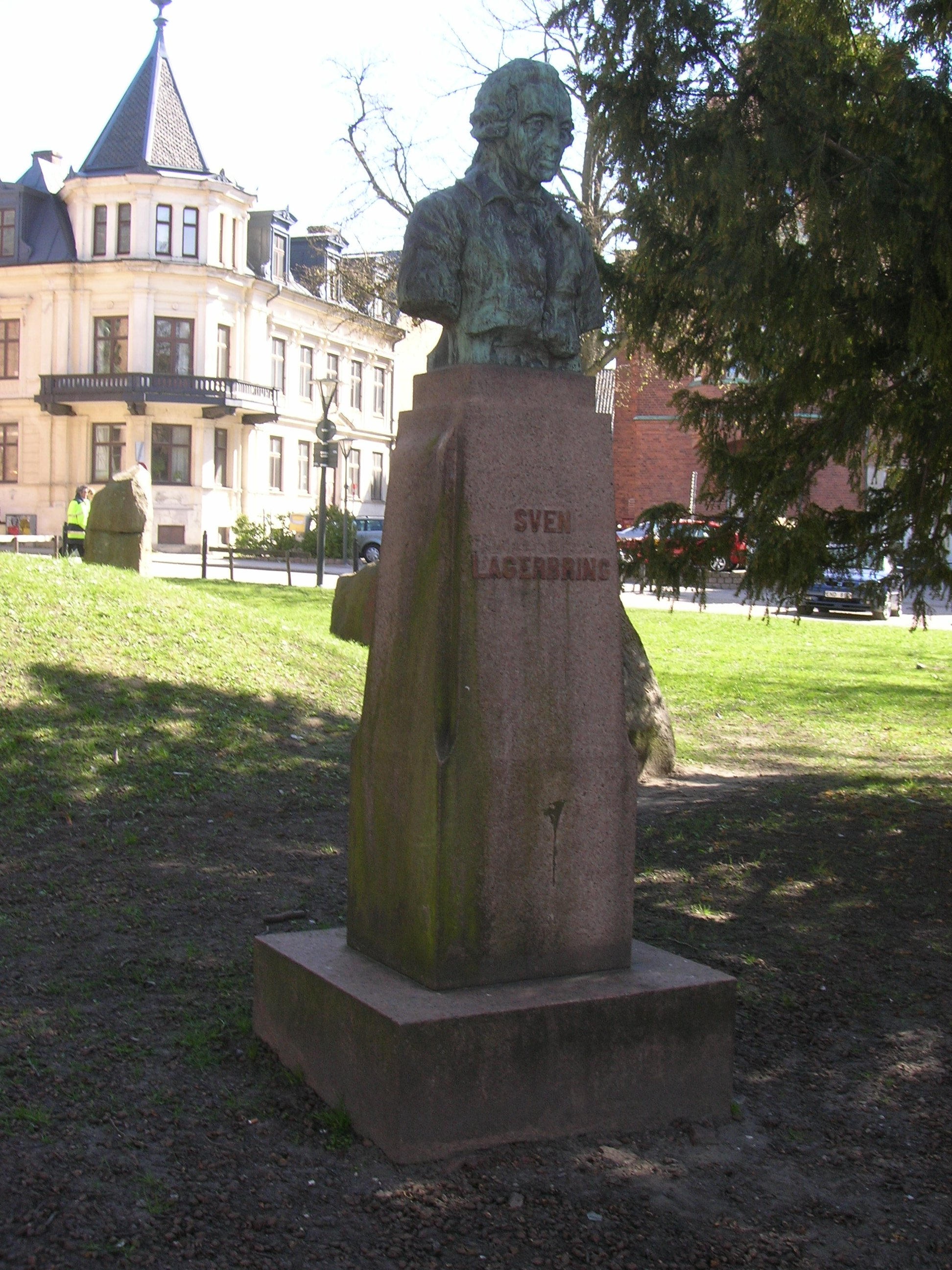 Sculpture of Sven Lagerbring in Lund, Scania, Sweden.